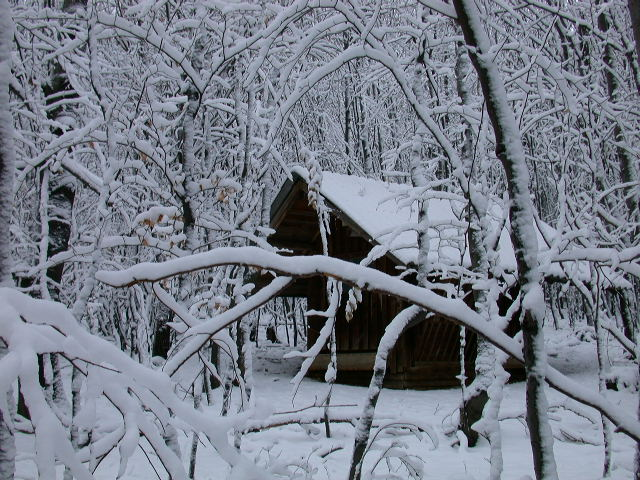 Snow in the forest of Giesshuebl.